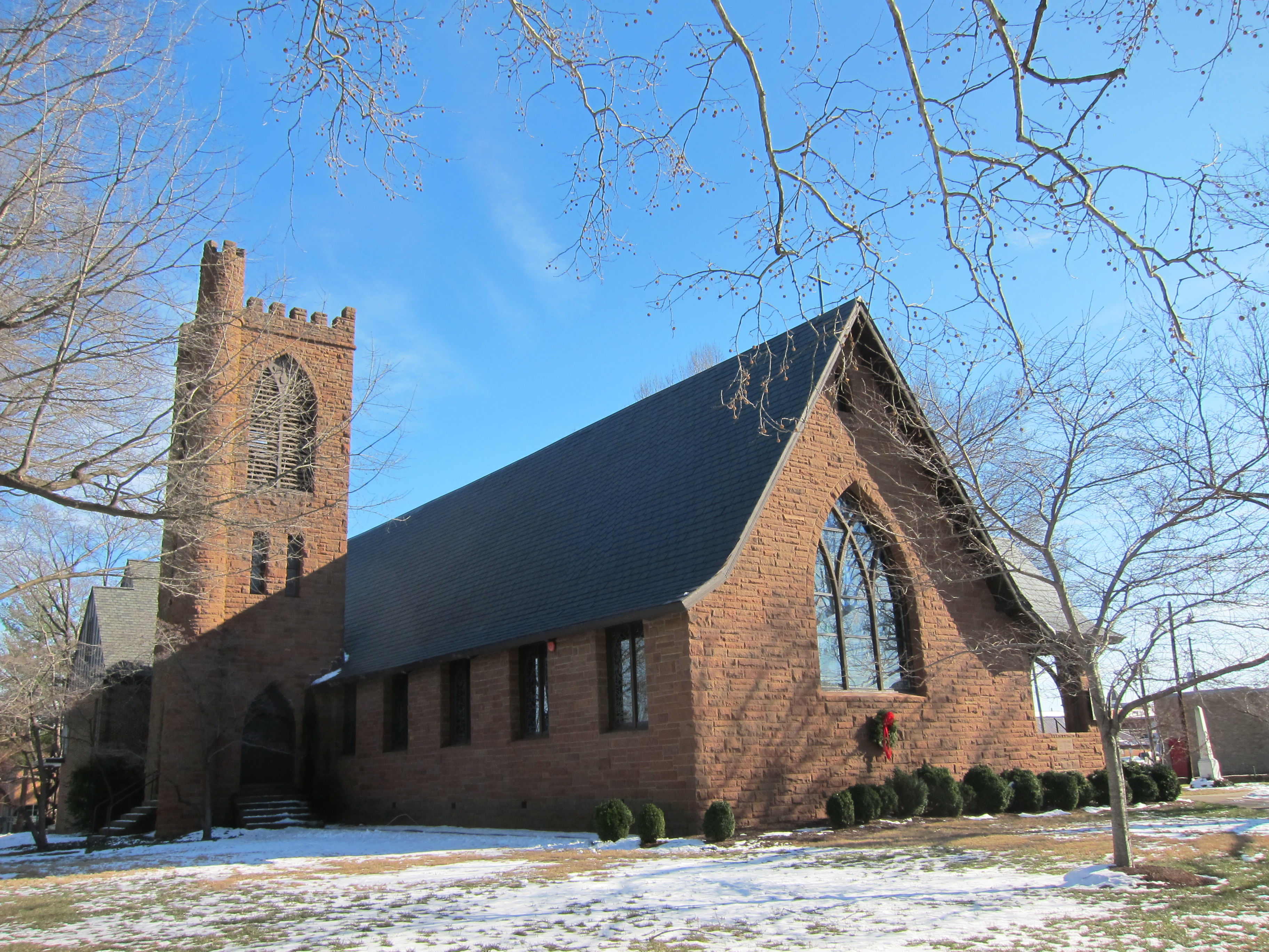 St. Stephen's Episcopal Church in Oxford, North Carolina. This sanctuary was built in 1902, but the original sanctuary was built in 1832.